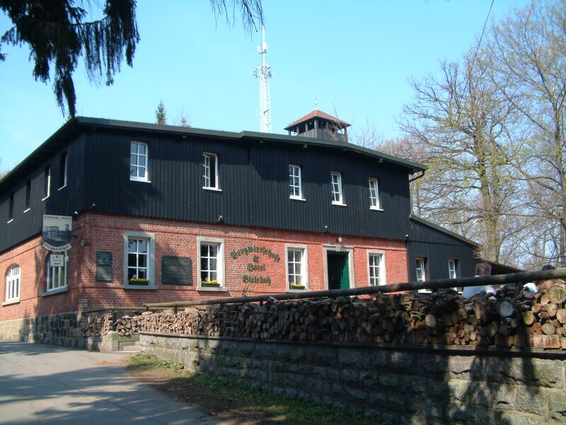 Bieleboh, restaurant on mountains top, Saxony, Germany